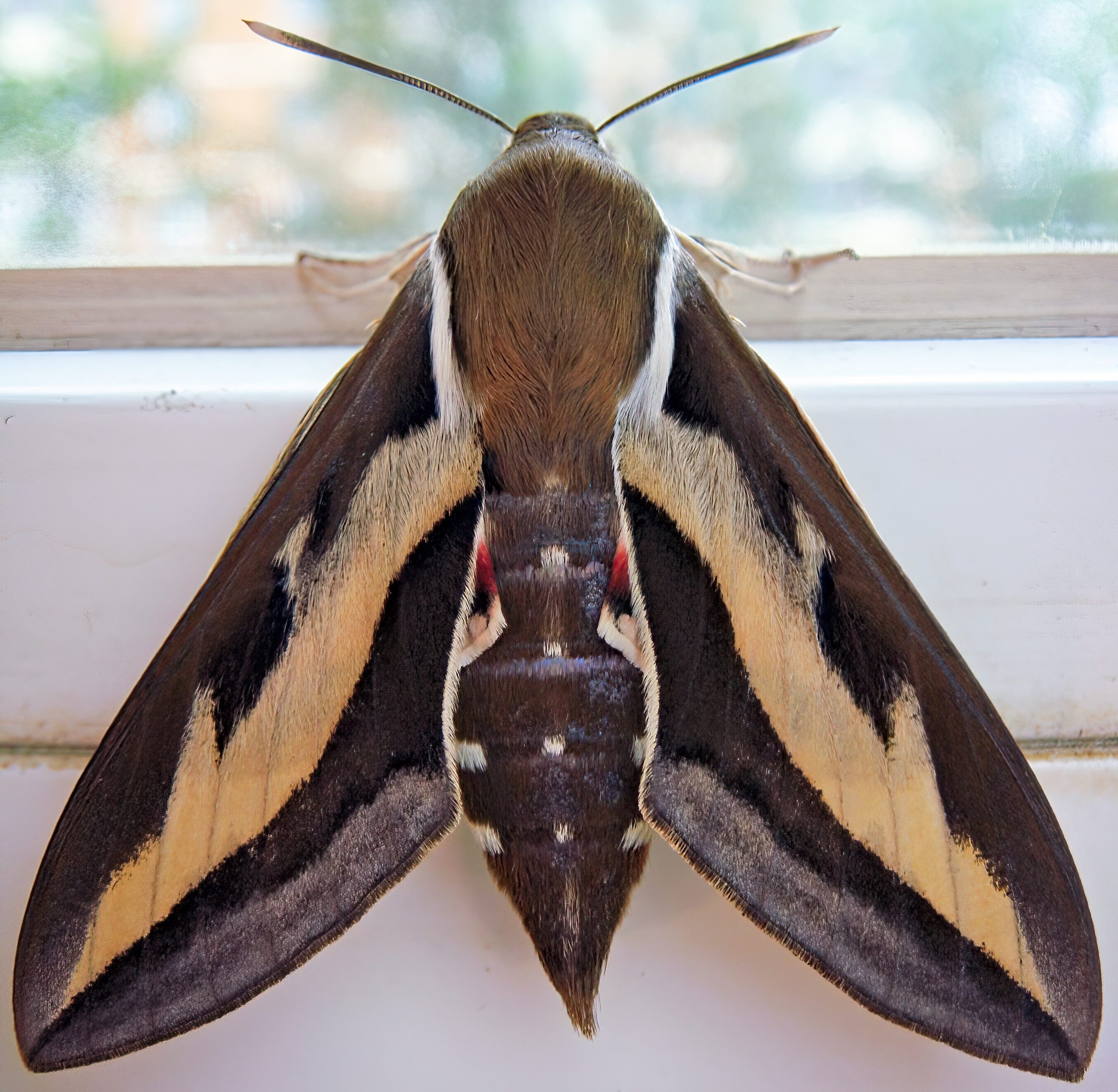 Bedstraw Hawk-Moth or Gallium Sphinx (Hyles galii), imago. Moscow.